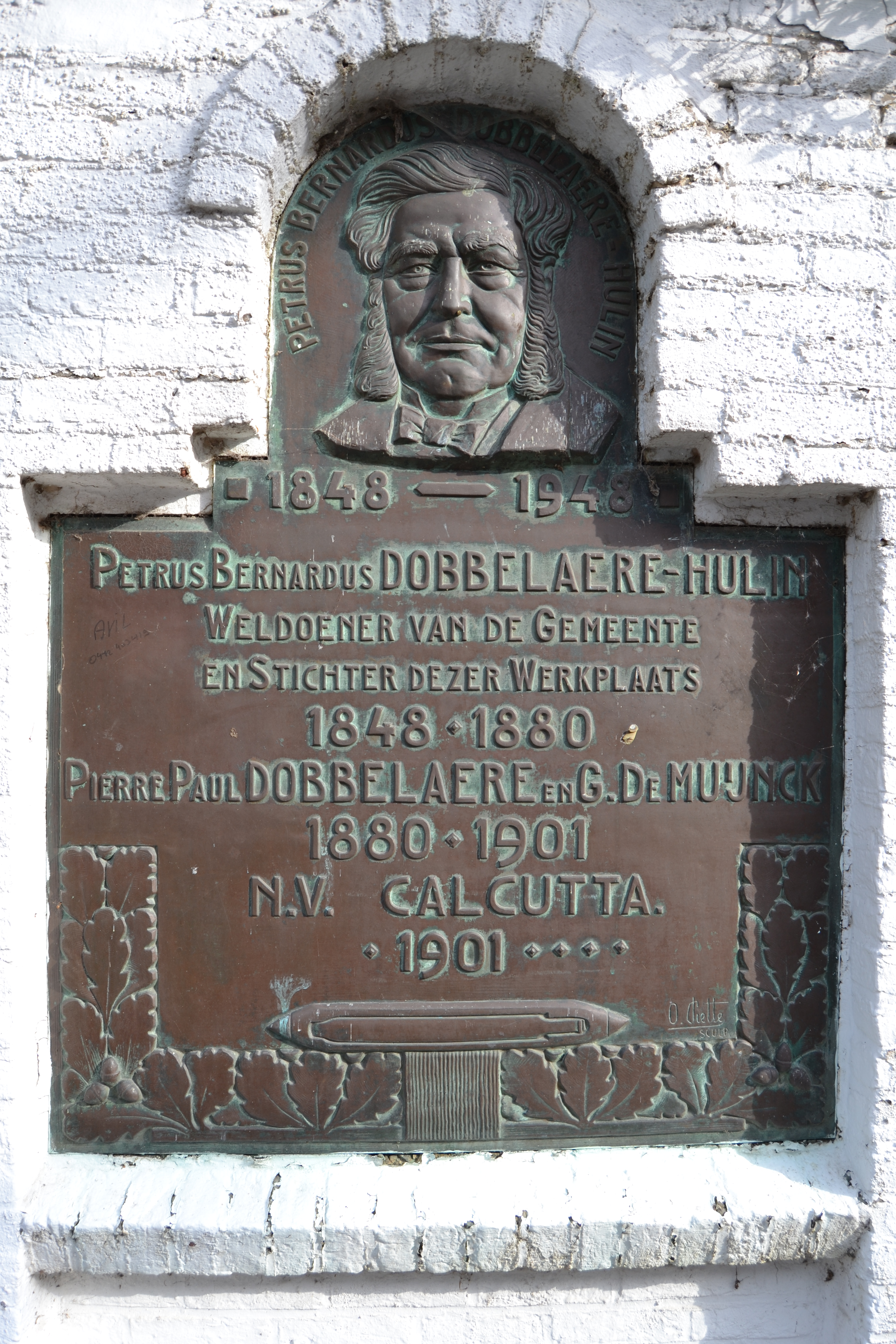 Plaque in rememberance of Petrus Bernardus Dobbelaere Hulin Sleidinge